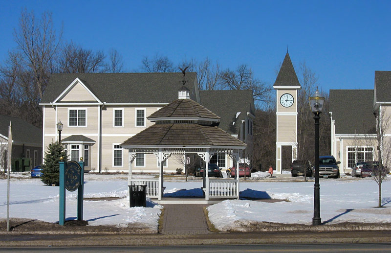 Downtown part of Plantsville, Connecticut. Photograph by 3Dimka taken 02/05/2005